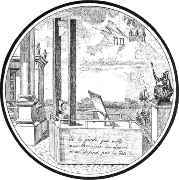 The Guillotine during the French Revolution.